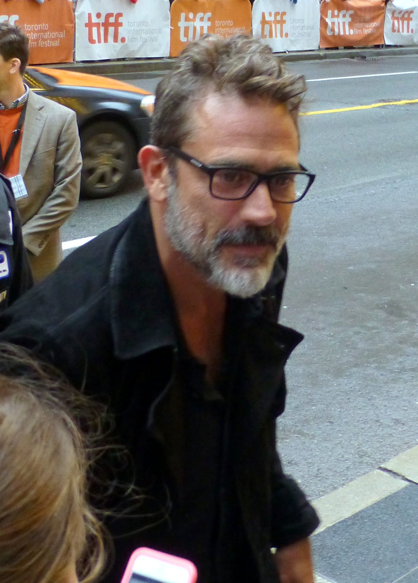 Jeffrey Dean Morgan at the premiere of Desierto, 2015 Toronto Film Festival